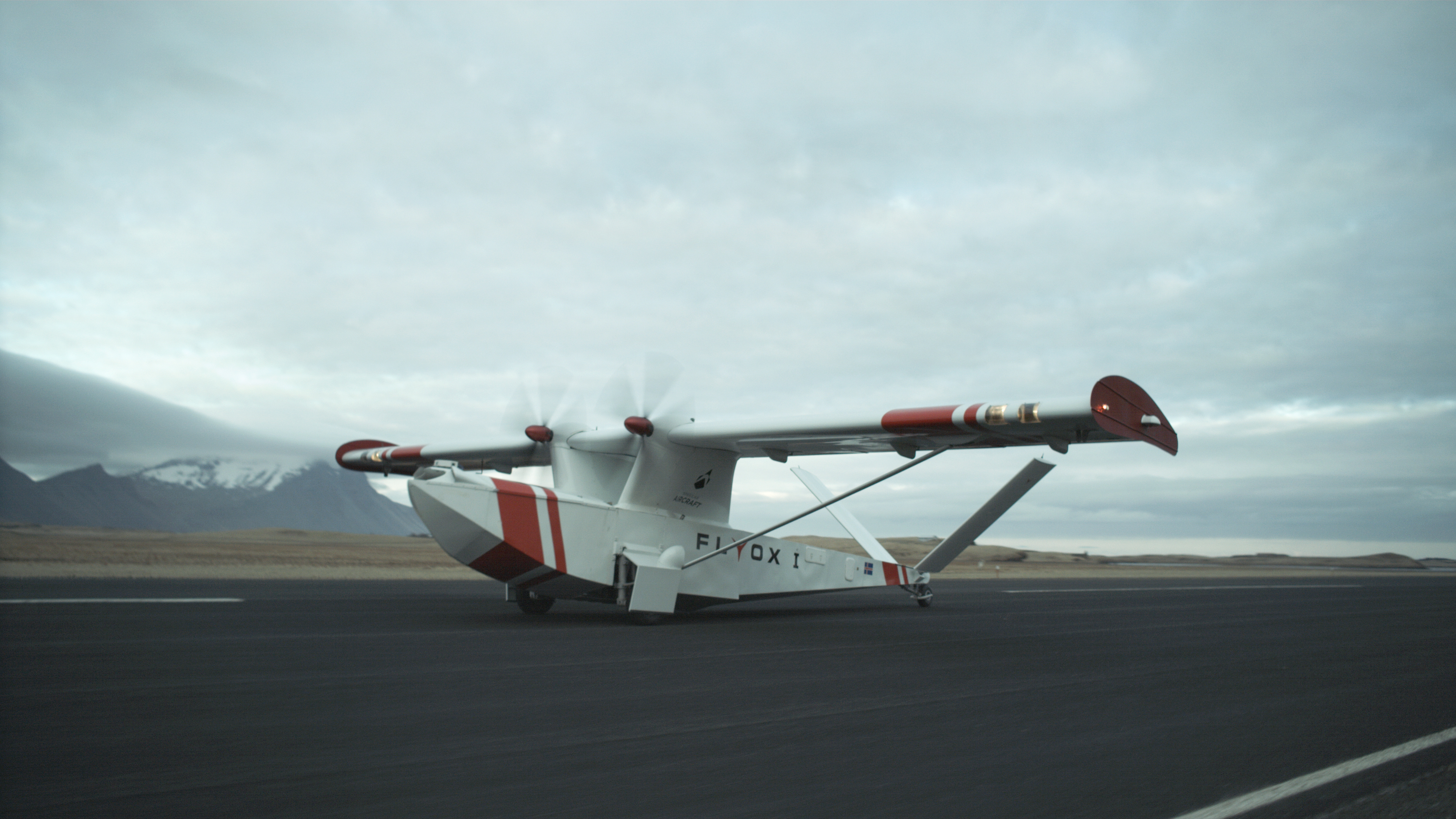 Rotation Speed